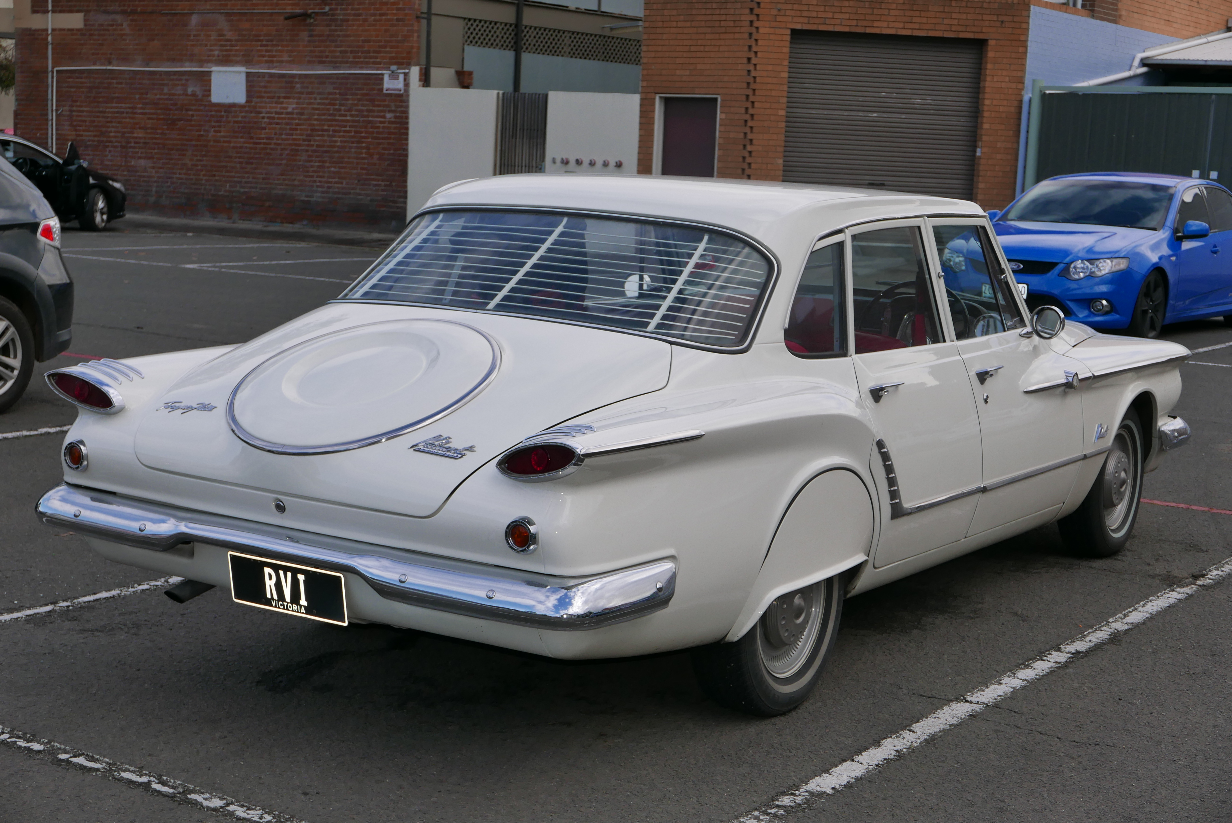 1962 Chrysler Valiant (RV1) sedan. Despite the date discrepancy between the description and the vehicle registration information below, a check of the production dates of the RV1 reveals a production range of January 1962 to March 1962. Photographed in Brunswick, Victoria, Australia. Vehicle registration enquiry results Jurisdiction Victoria Registration RVI Chassis code RV1223 Engine code RP11025 Compliance date 1961-01 (not a typo) Year of manufacture 1961 (not a typo)